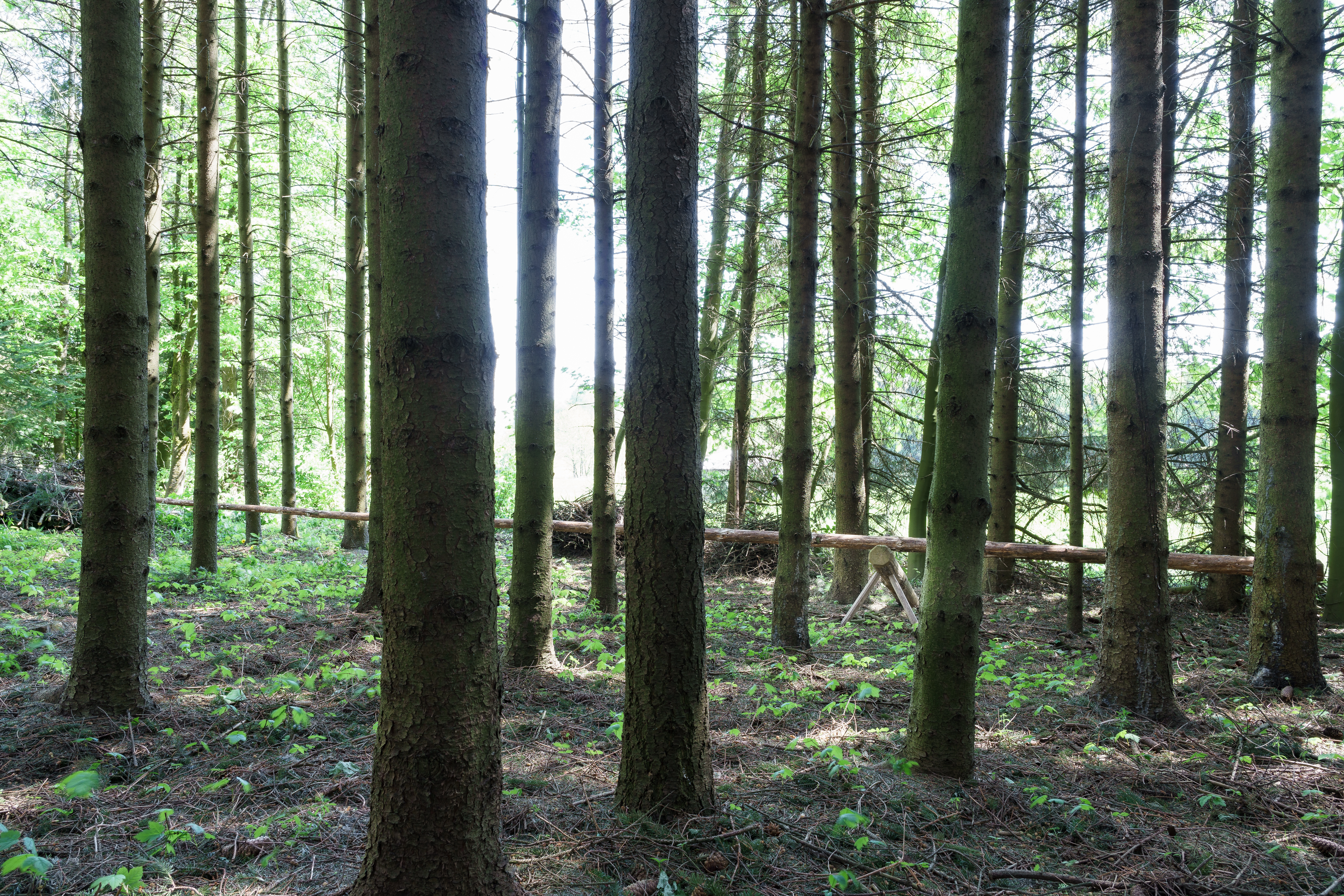 Manually decorticated trunk of a spruce as protection to bark beetles (Scolytinae) / Vogelsberg